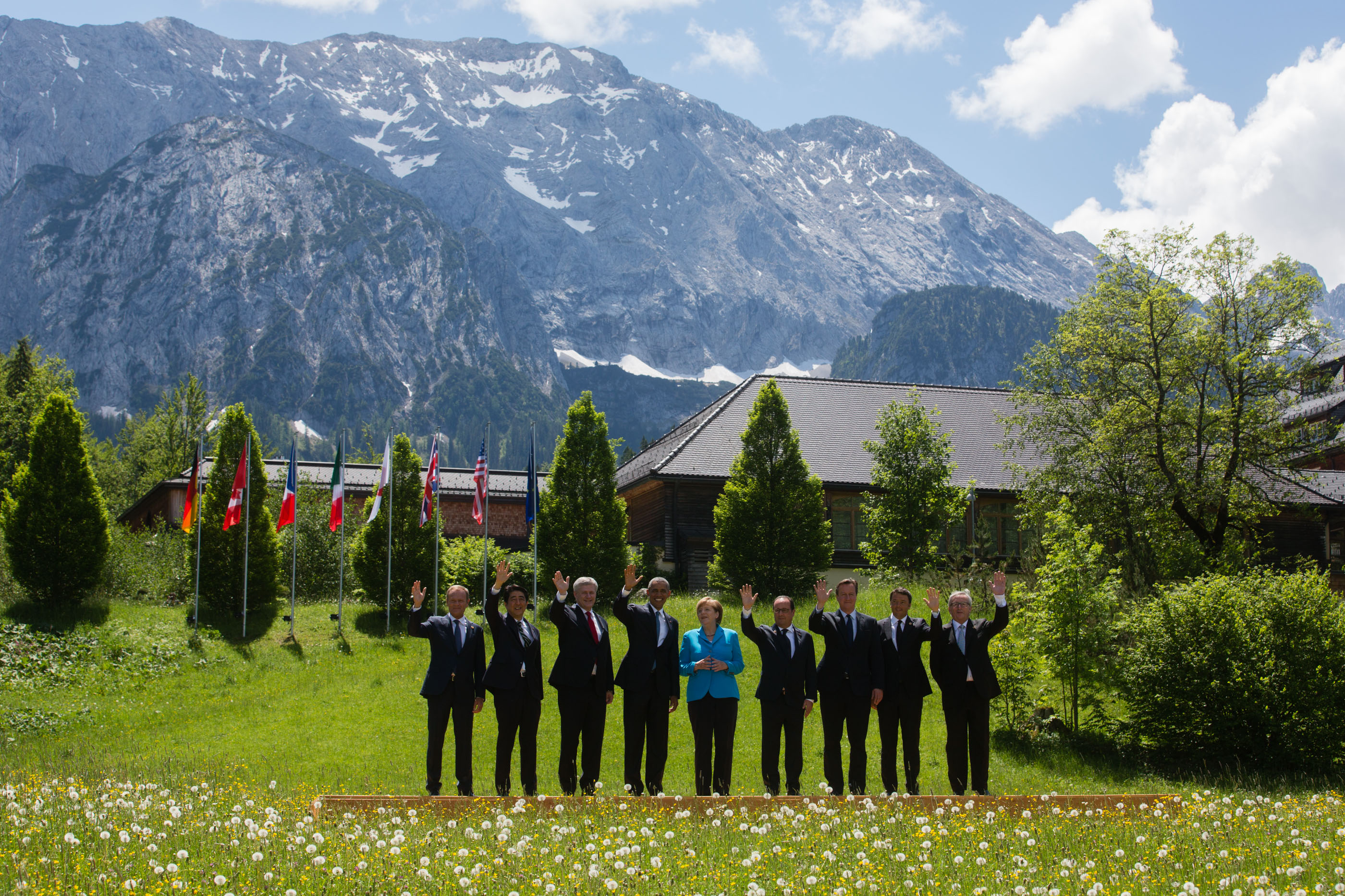 (l-r) European Council President Donald Tusk, Japan's Prime Minister Shinzo Abe, Canada's Prime Minister Stephen Harper, US President Barack Obama, Germany's Chancellor Angela Merkel, French President François Hollande, Britain's Prime Minister David Cameron, Italy's Prime Minister Matteo Renzi, and European Commission President Jean-Claude Juncker wave while posing for a family picture at the Elmau Castle resort near Garmisch-Partenkirchen on June 7, 2015 during the G7 summit.